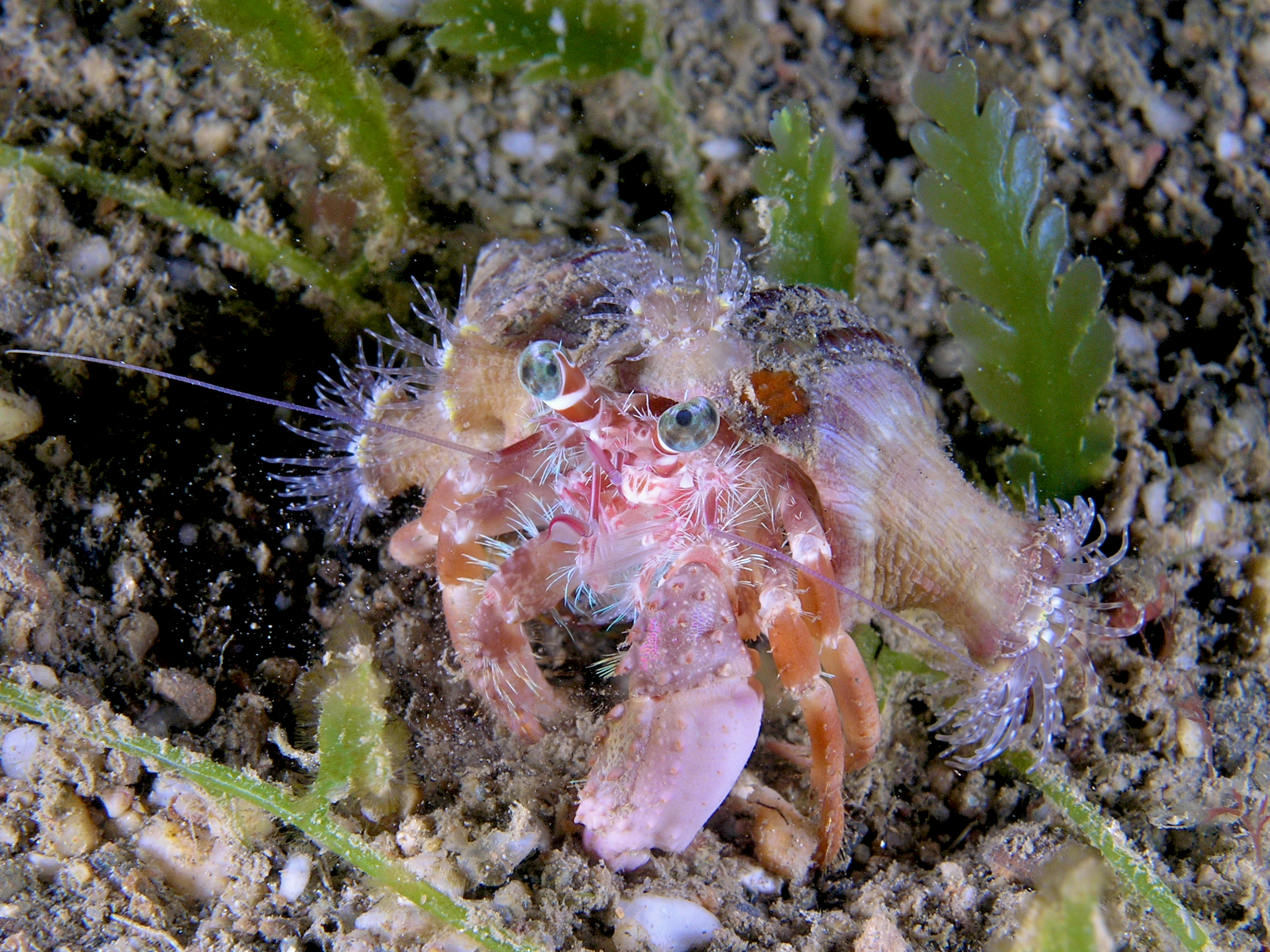 Dardanus pedunculatus (Hermit crab) with anemone covered shell